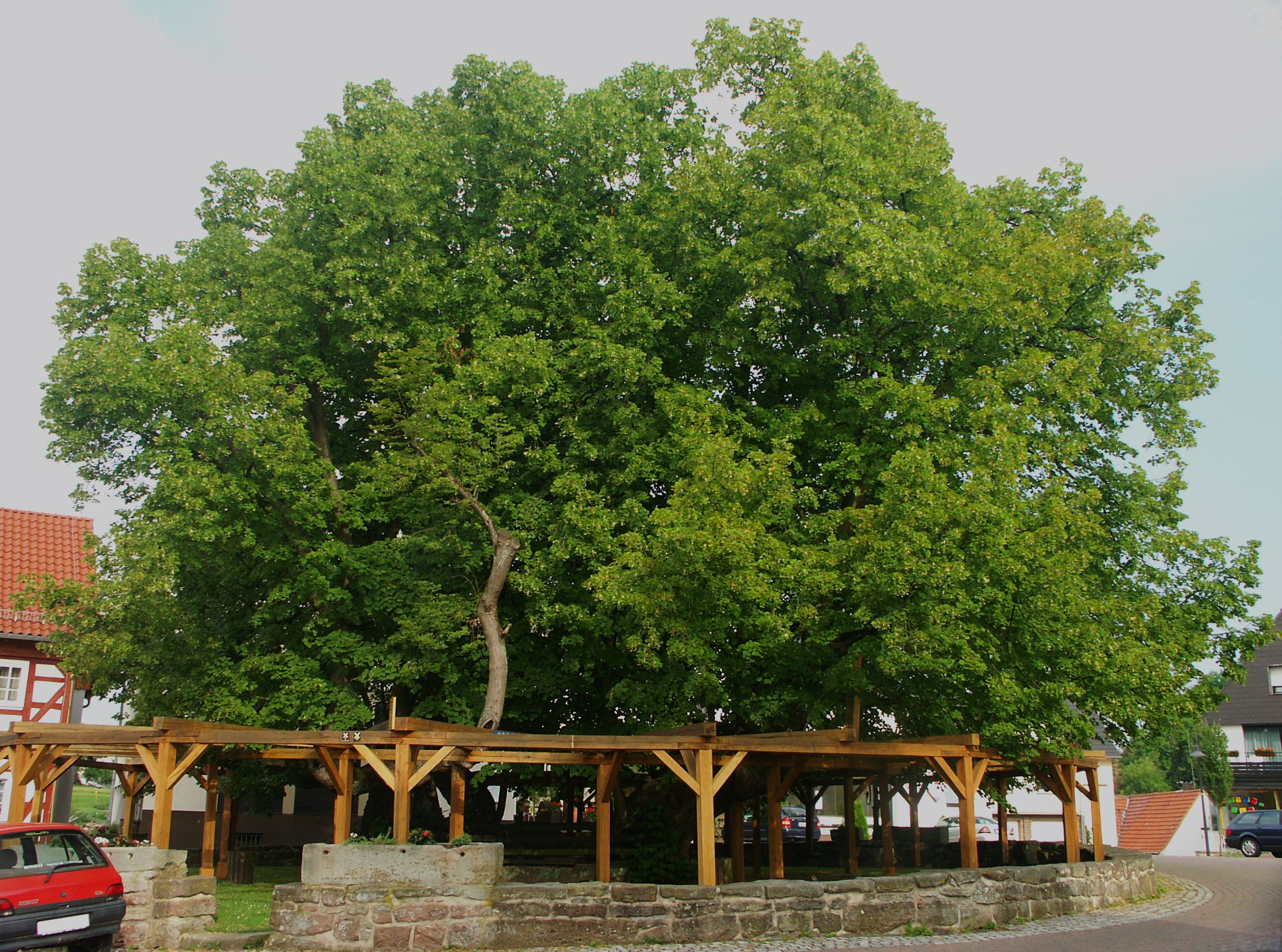 The lime tree (Tilia platyphyllos), around 1200 years old, it is known as the oldest tree in Germany. Is is growing in the municipality of Schenklengsfeld, near Bad Hersfeld. Today the tree grows from four side shoots, the central trunk having died some time ago.